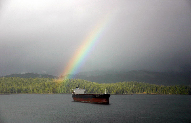 Rainbow in Prince Rupert Harbour